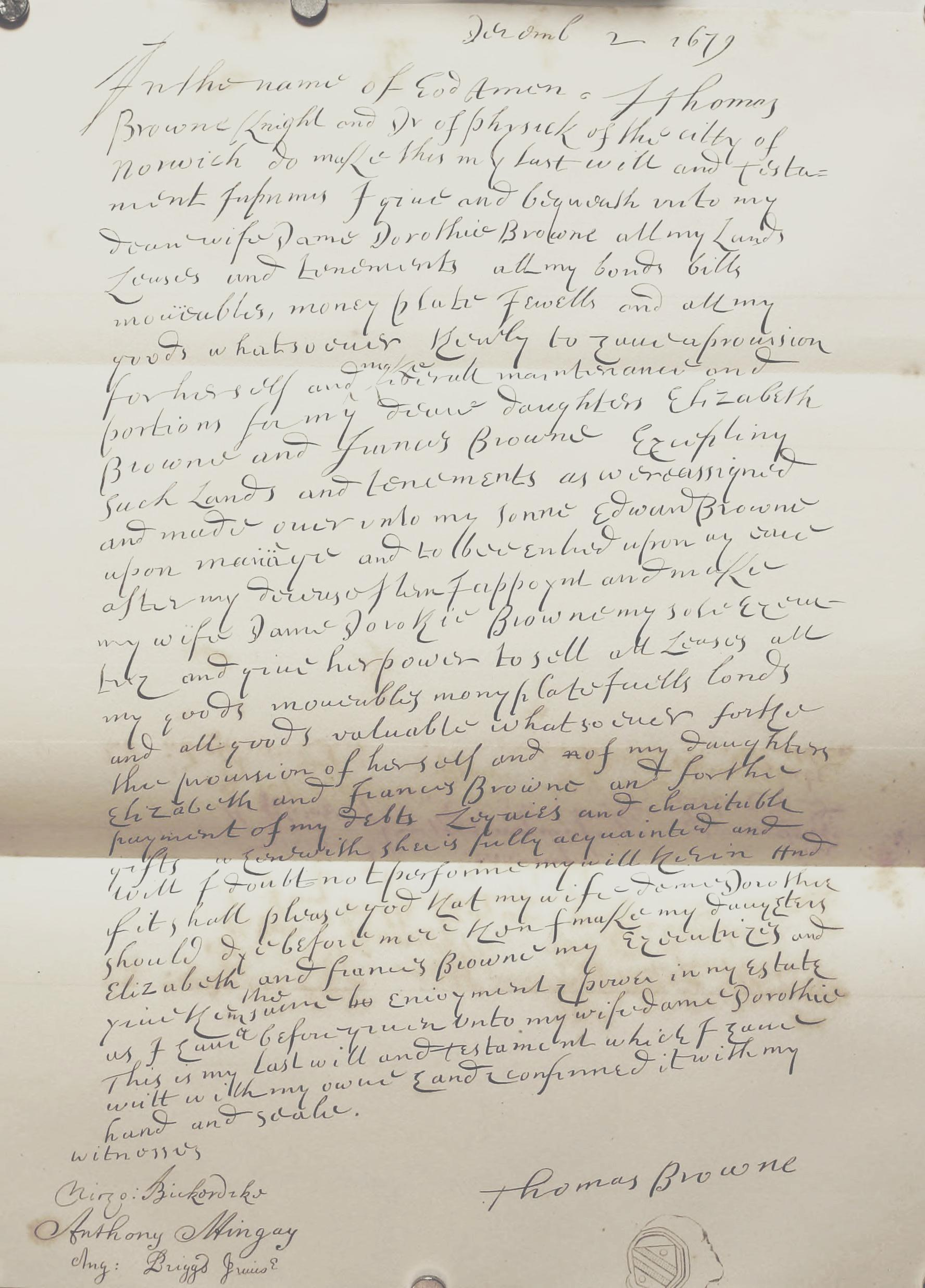 copy of the will of Sir Thomas Browne